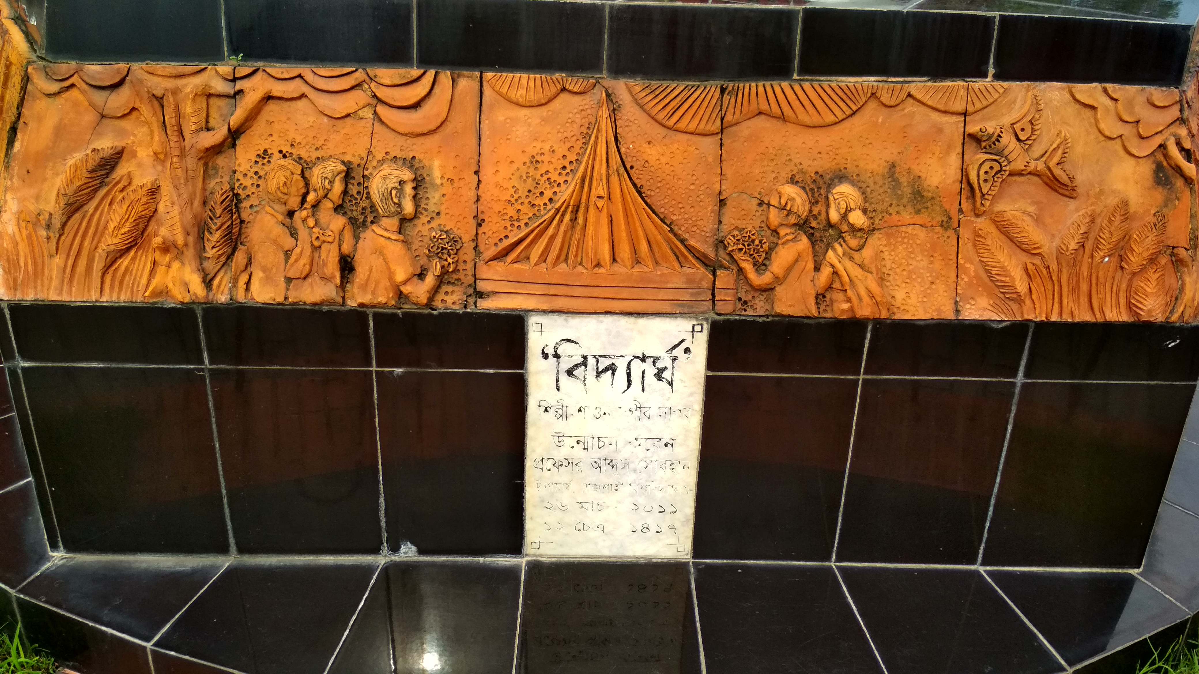 Terracotta of Martyr Habibur Rahman Memorial Sculpture (Bidargho)